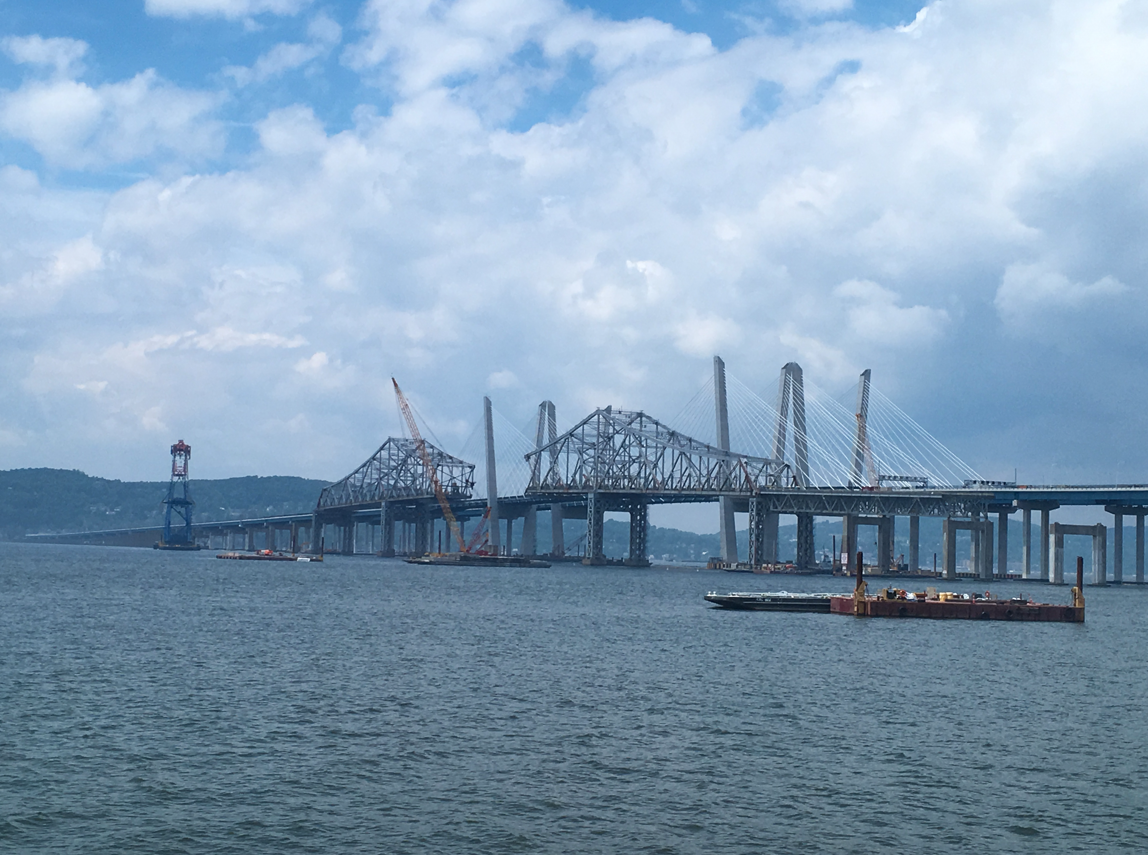 The Tappan Zee Bridges during simultaneous construction and demolition.